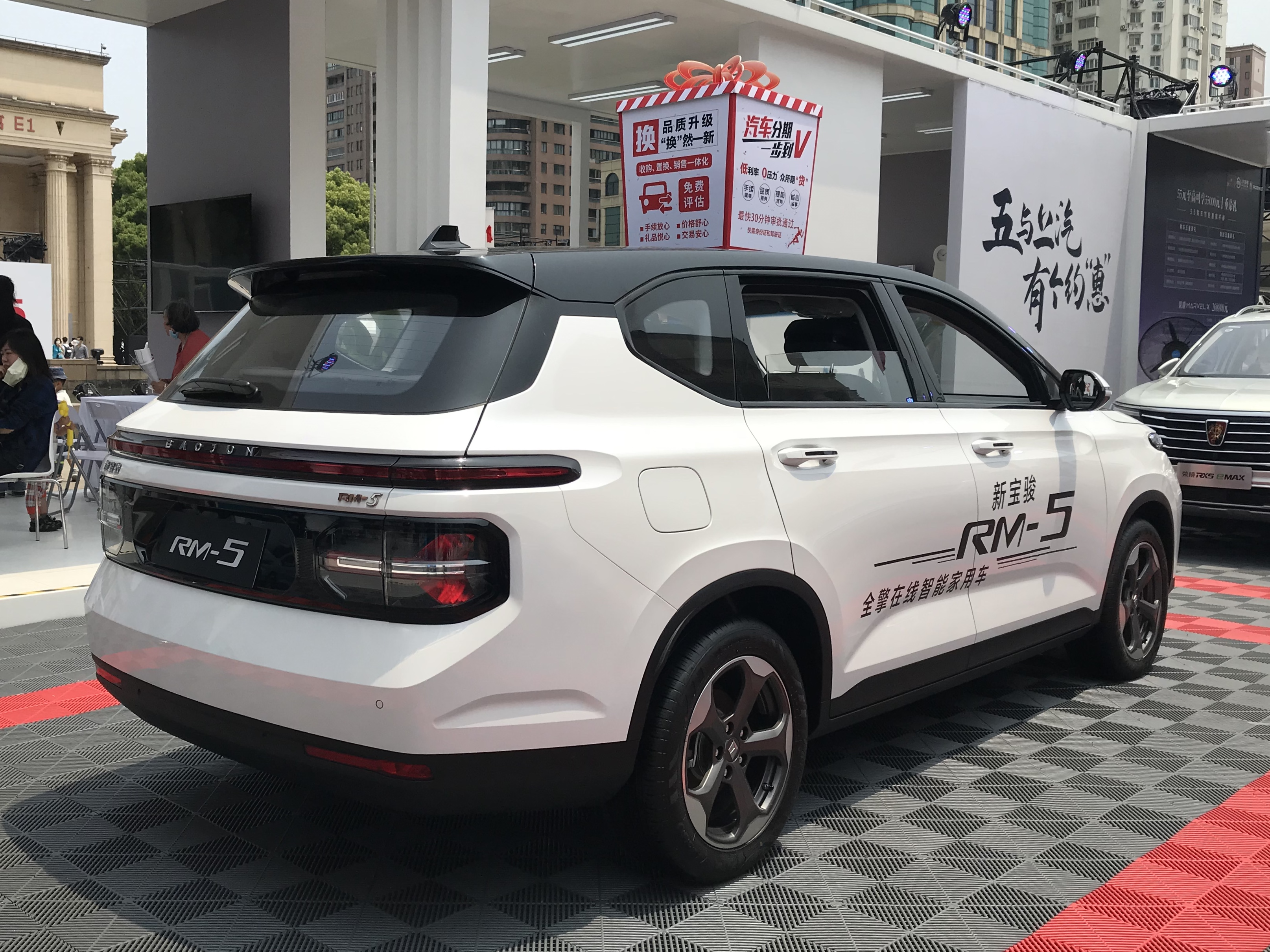 Baojun RM-5